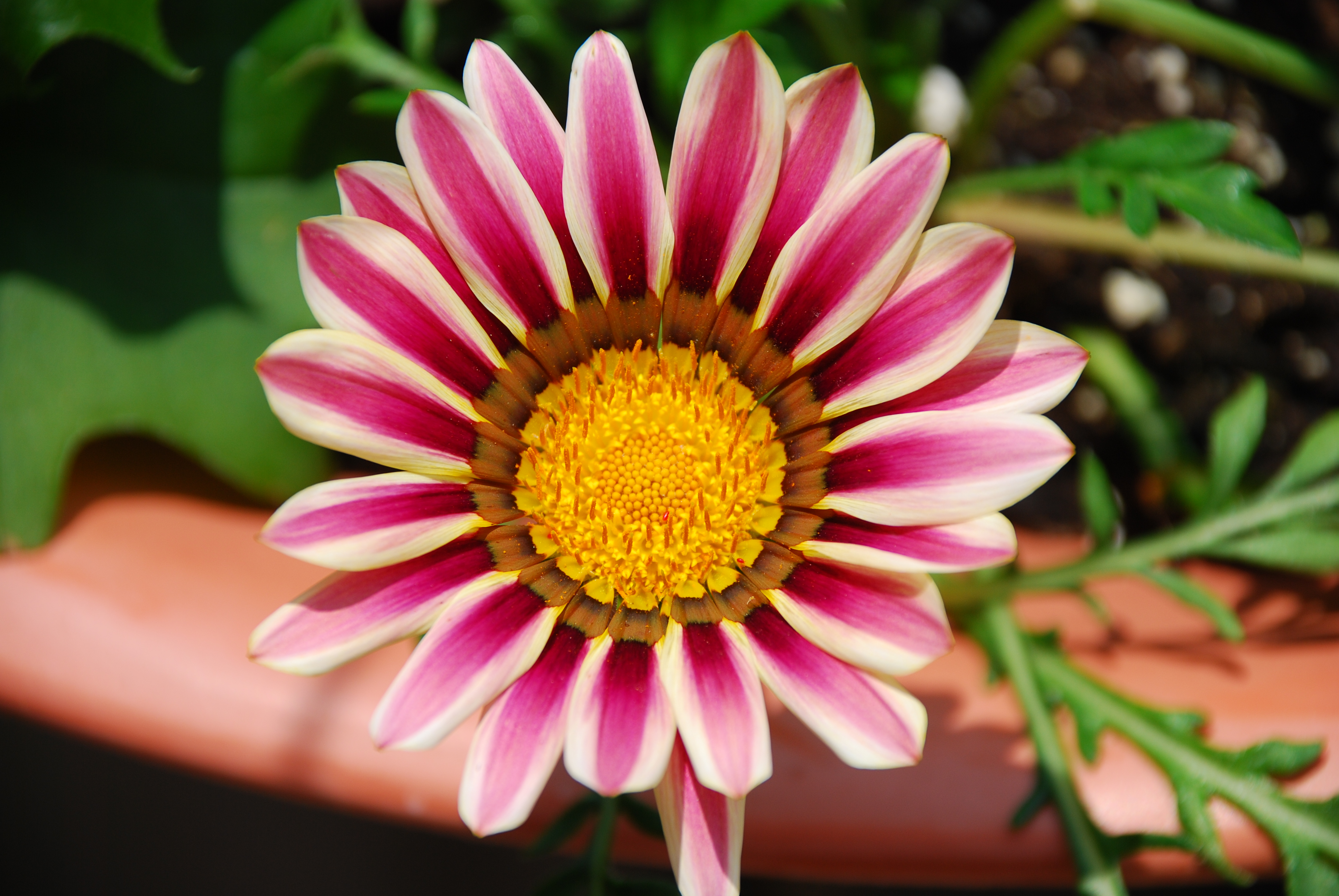 Another colourful Gazania flower